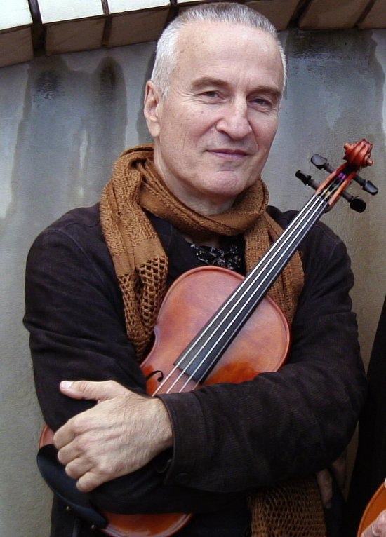 Romano Crivici photographed at the Sydney Opera House before a European tour in 2014